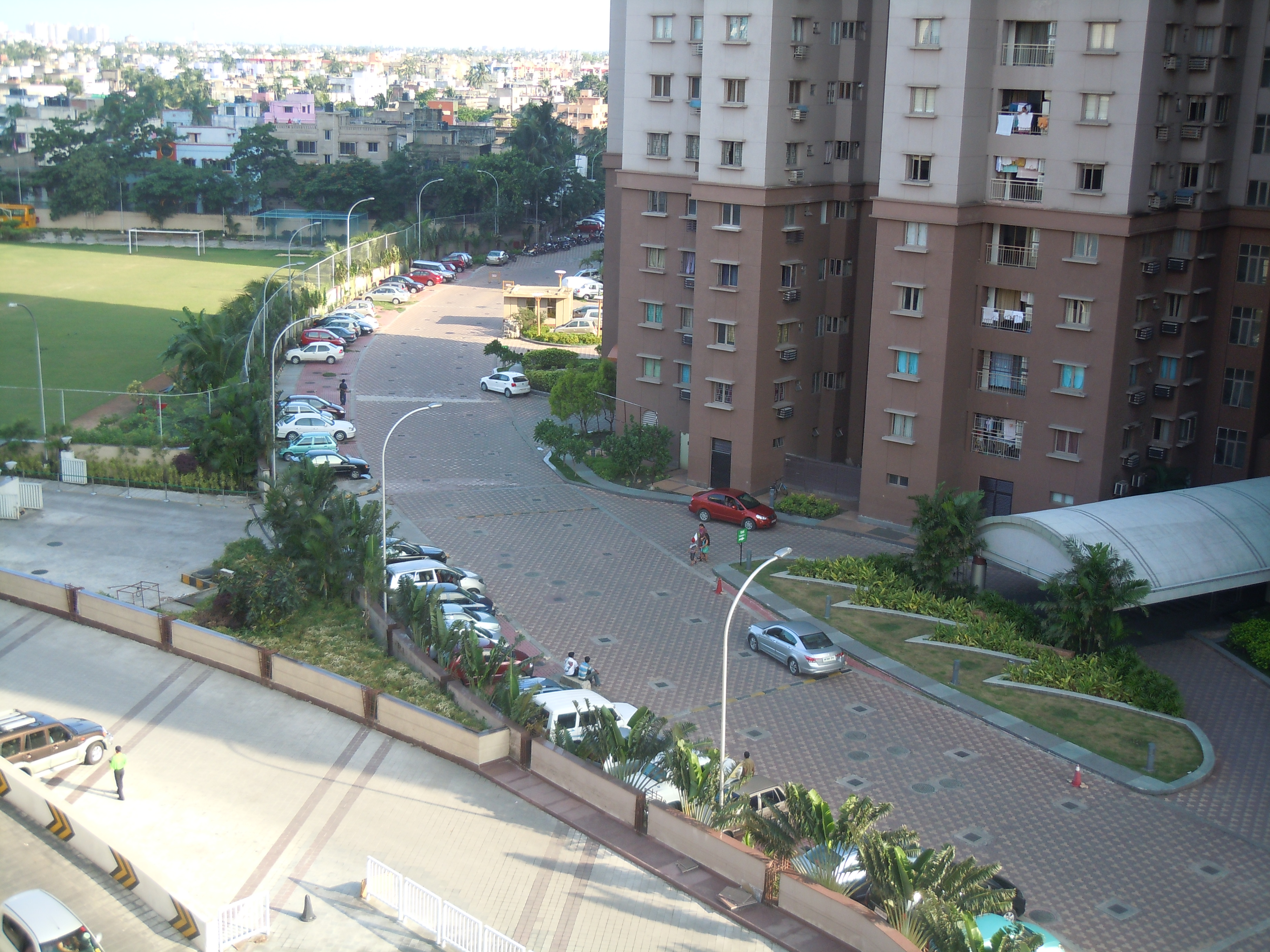 from top of south city mall